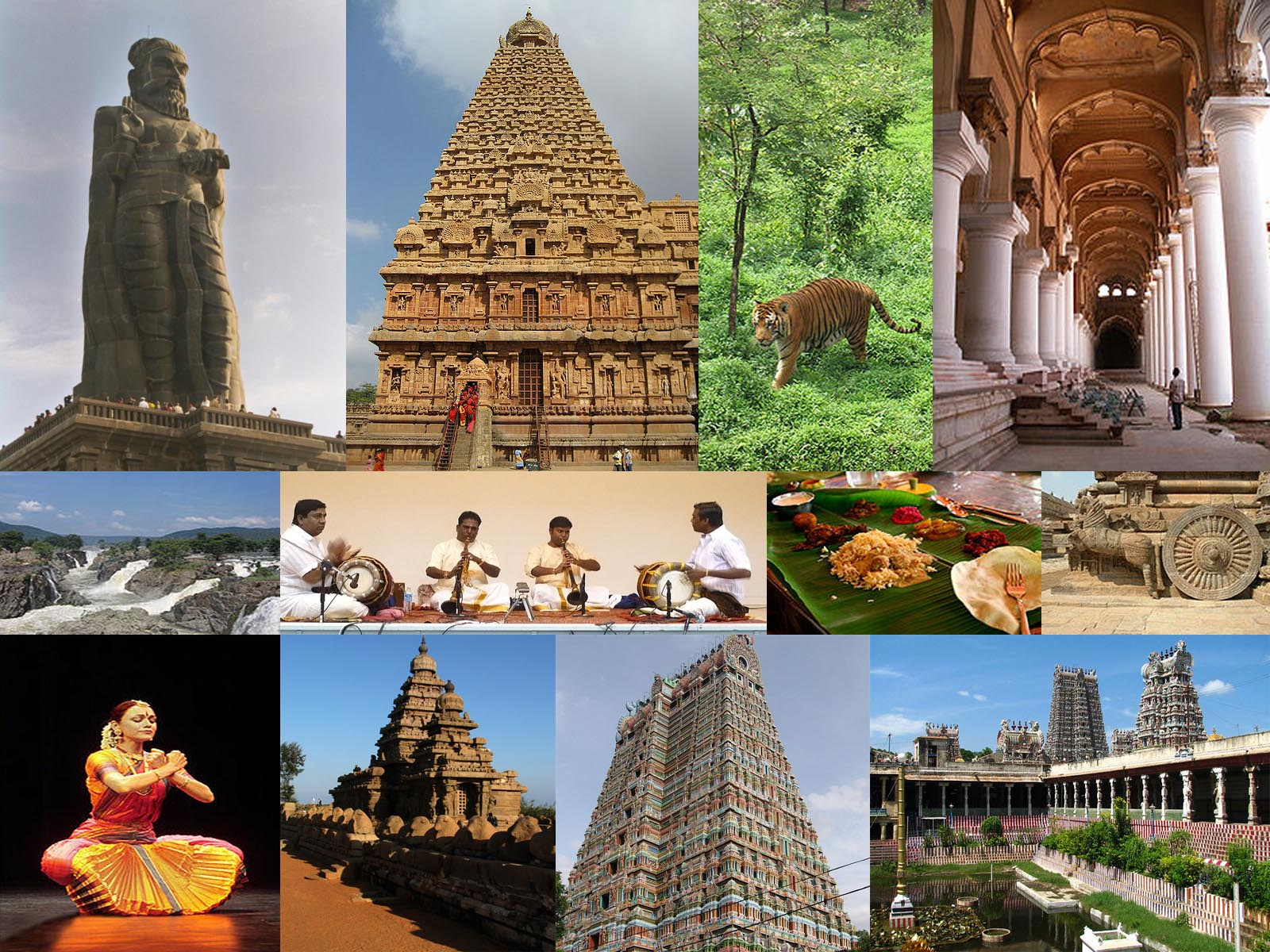 Image that signifies Tamil culture, literature, architecture, wildlife etc.